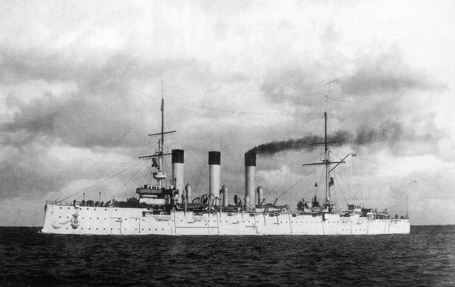 Russian protected cruiser Aurora on her official main machinery trials (June 14th, 1903)